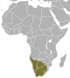 Cape Fox range